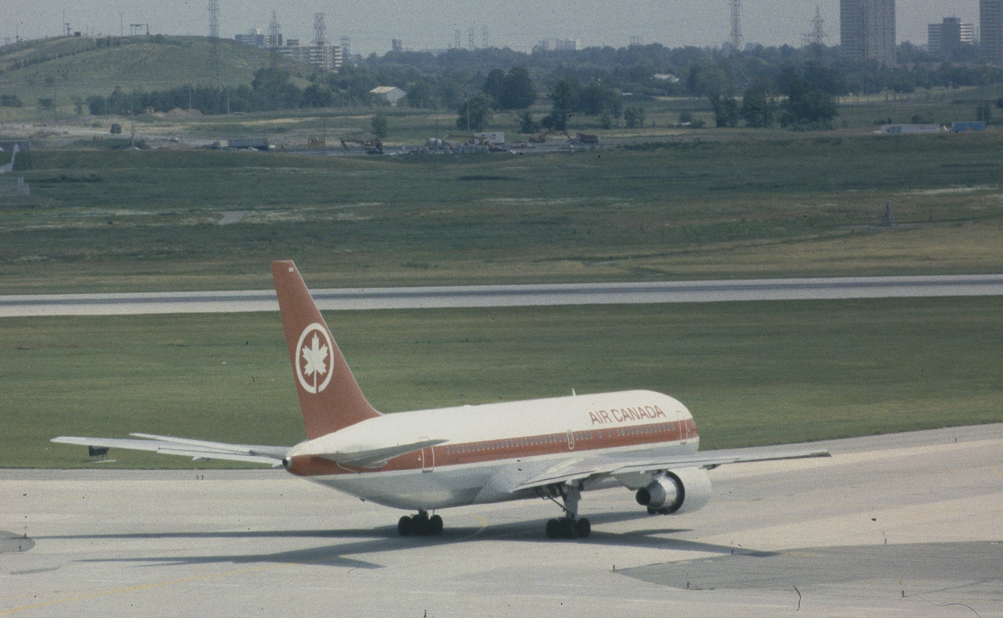 Boeing 767-233 C-GAUN / 604 (cn 22520/47) Air Canada, the "Gimli Glider" (last noted stored Mojave in 2009). Toronto - Lester B. Pearson International (Malton) (YYZ / CYYZ) Canada - Ontario, July 14 1984.